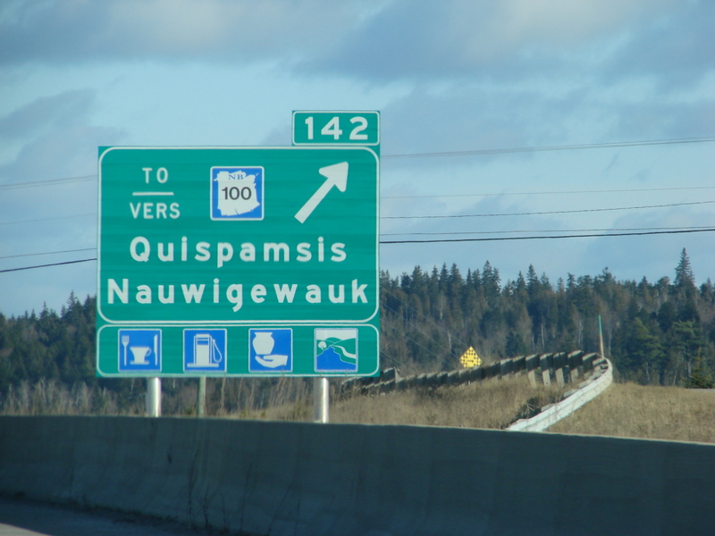 Exit 142, New Brunswick Route 1 near Saint John.